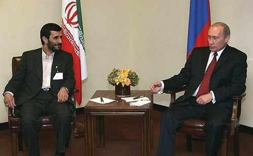 President of Iran Ahmadinejad at the United Nations HQ. He was meeting Russian President Vladimir Putin (cropped from the photo).